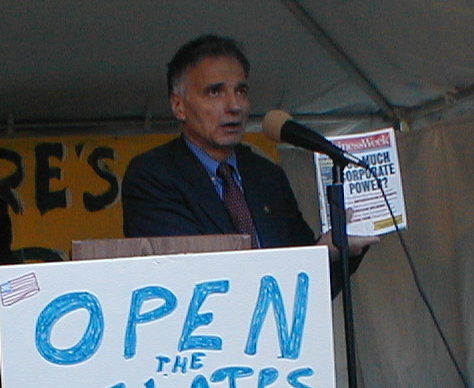 Ralph Nader speaks at Wash U against the corporate control of the October 17 2000 debates, which he was excluded from.